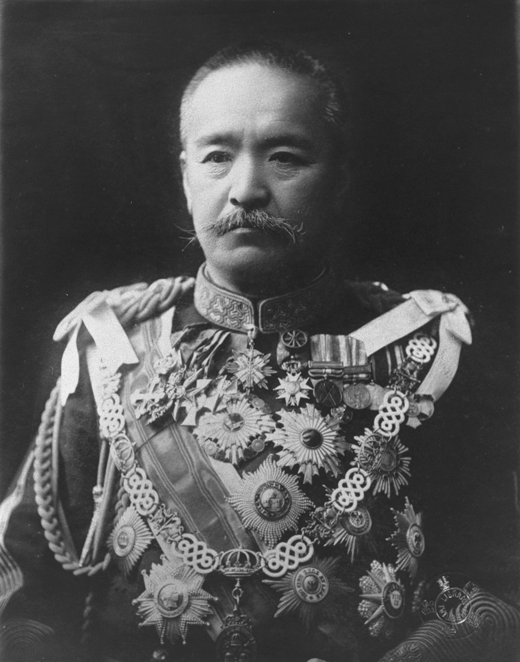 Portrait of Katsura Taro (桂太郎, 1848 – 1913)